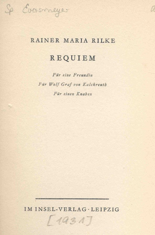 Scan of Book Requiem of Rainer Maria Rilke